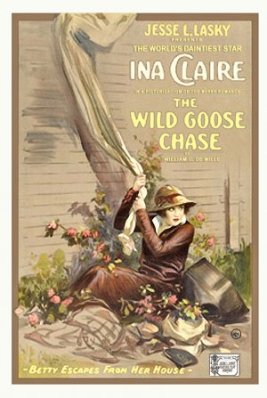 Poster for the film The Wild Goose Chase (1915) strarring Ina Claire.